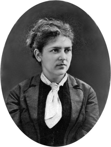 Fanny Osbourne, shortly before her meeting with Robert Louis Stevenson.